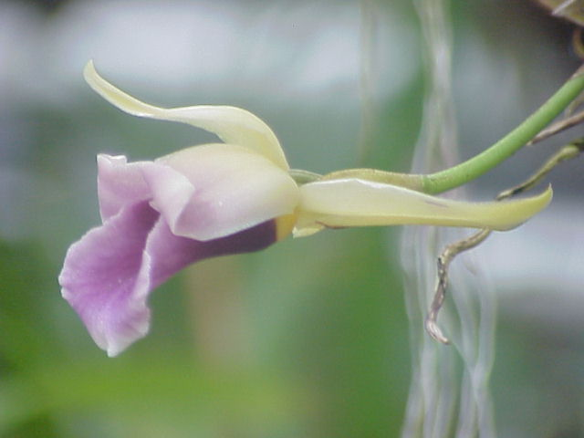 Species: Cochleanthes discolor Family: Orchidaceae Image No. 1